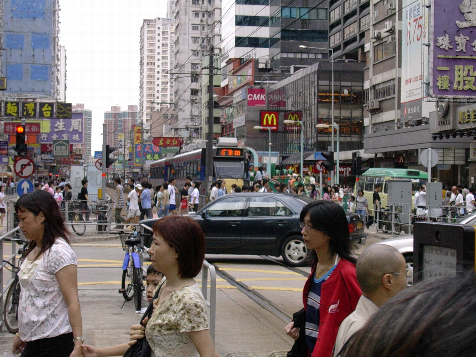 Yuen Long Town Photography